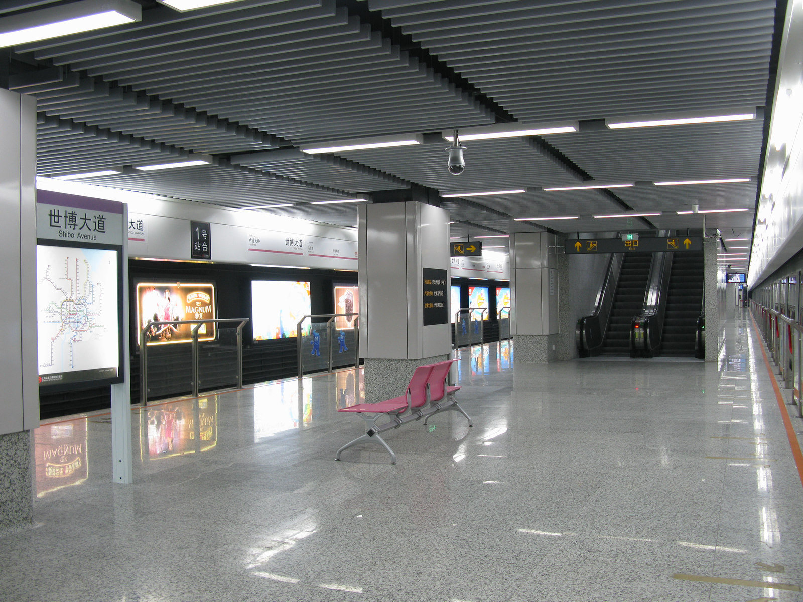 Line 13 Platform of Shibo Avenue Station, Shanghai Metro